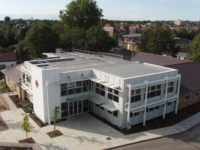 Classrooms of Twyford Church of England High School, Acton View from the roof of The Elms, 18th century house which is part of the school. Taken during London Open House visit.